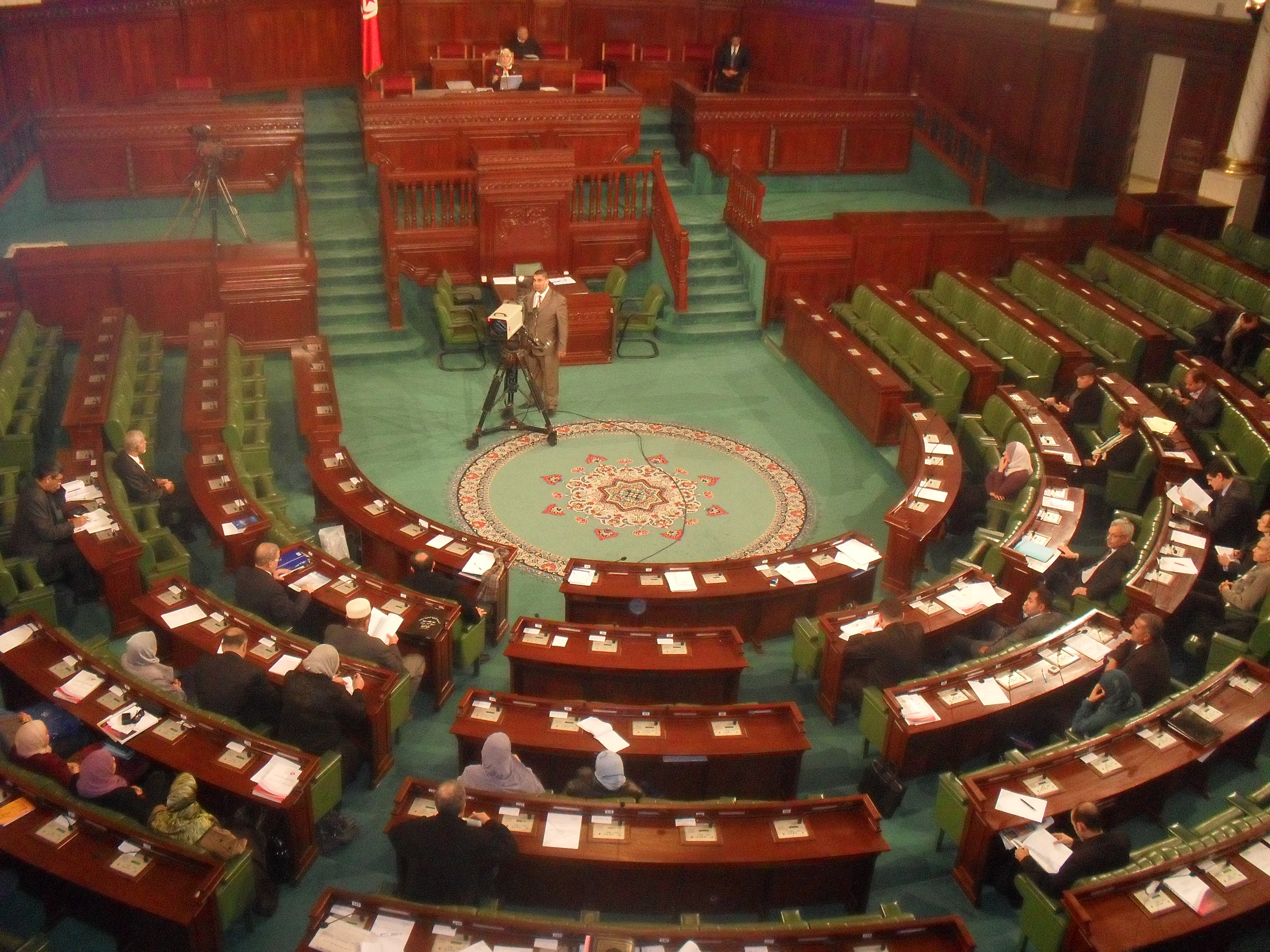 Tunisian Constituent Assembly deputies on February 28th discussing the place of Islamic law in the new constitution